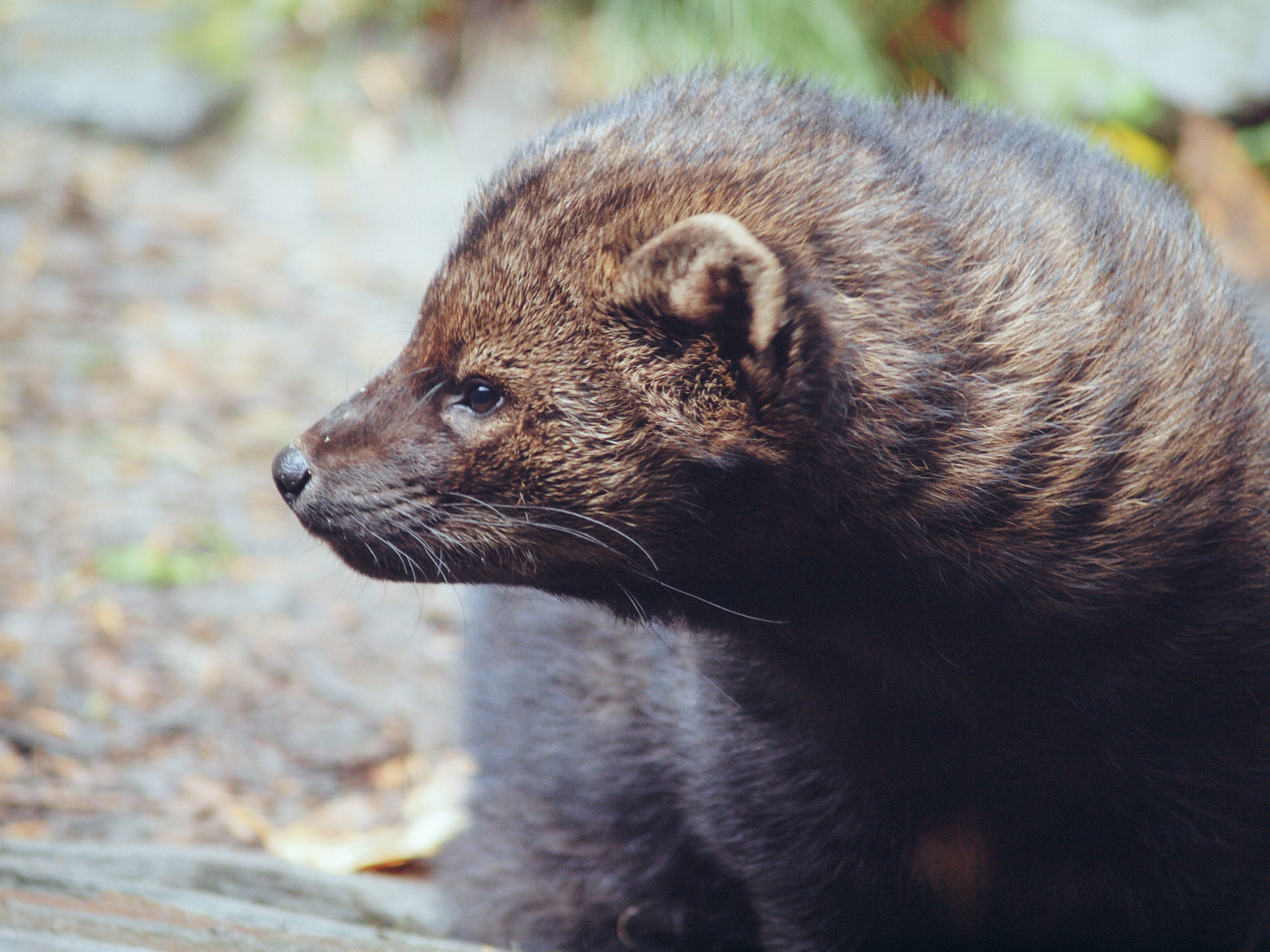 A Fisher up close